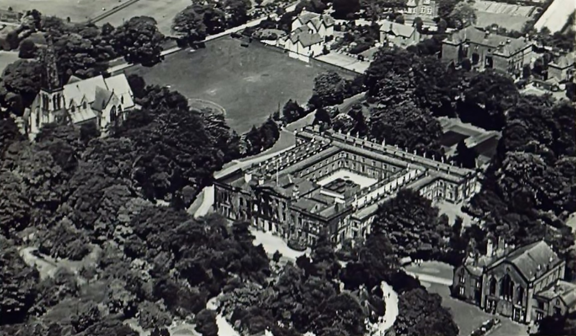 An aerial view of Didsbury College, 1950. The main building is the original mansion, and the old chapel building is at the bottom right.